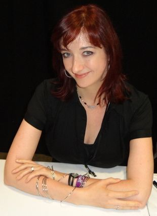 Lauren Faust at the 2012 Summer Bronycon Cropped from File:Lauren faust 2012 summer bronycon.jpg